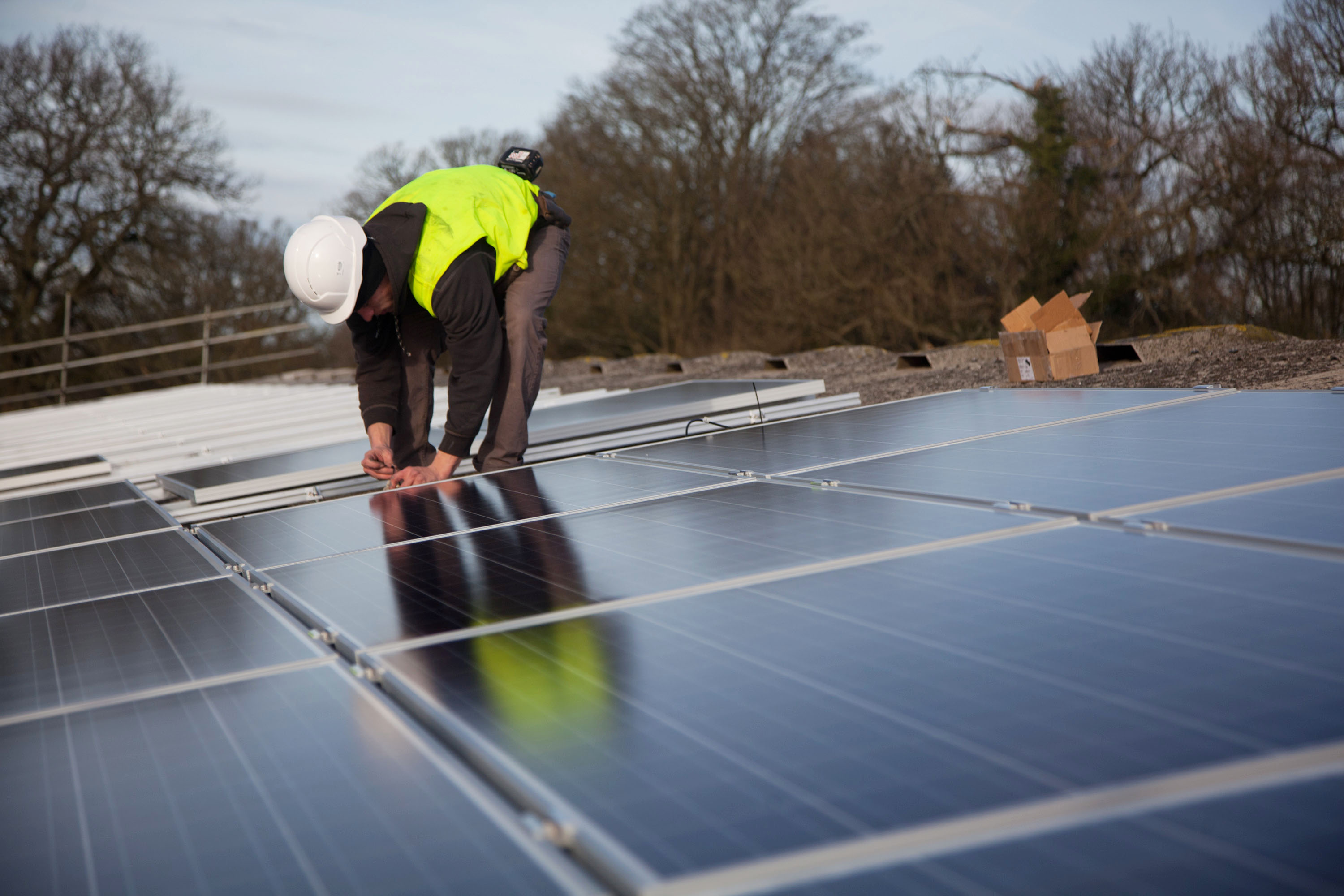 Andy Tyrrell and Jake Beautyman install solar panels on a barn roof on Grange farm, near Balcombe.